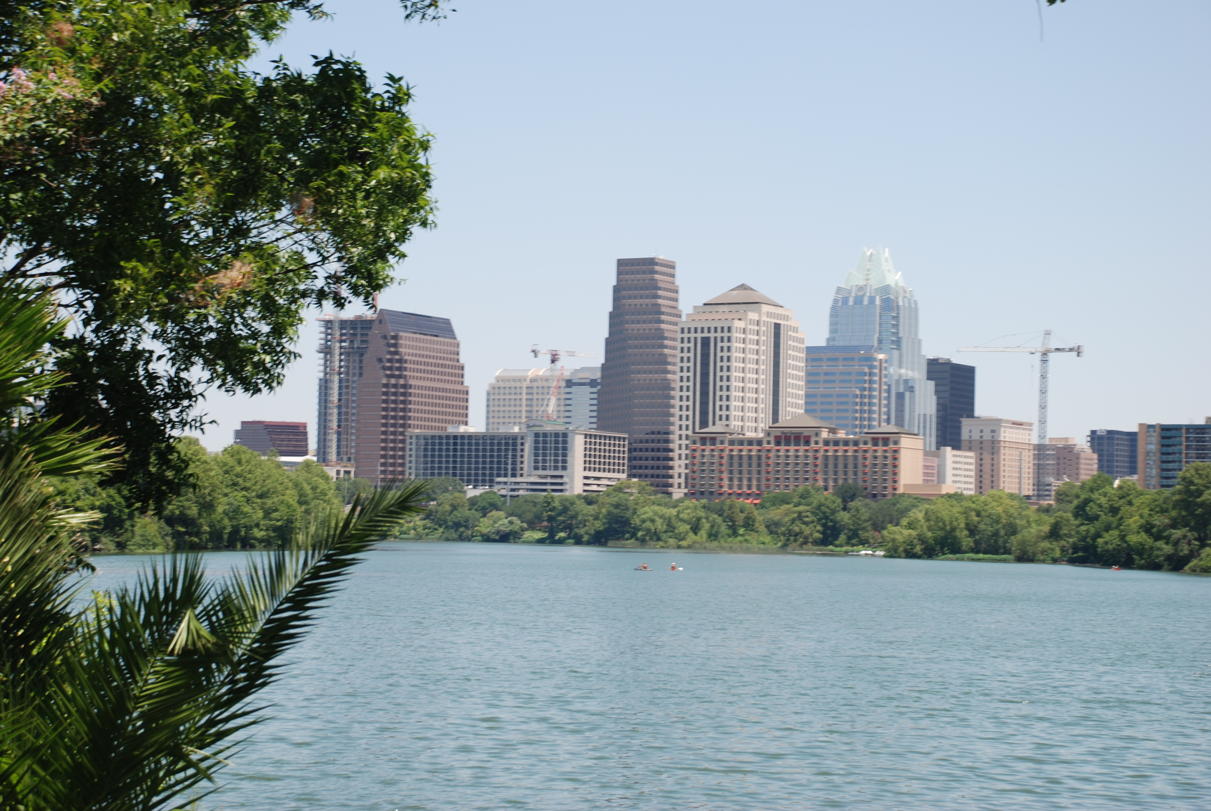 Skyline of Austin, taken from across the river